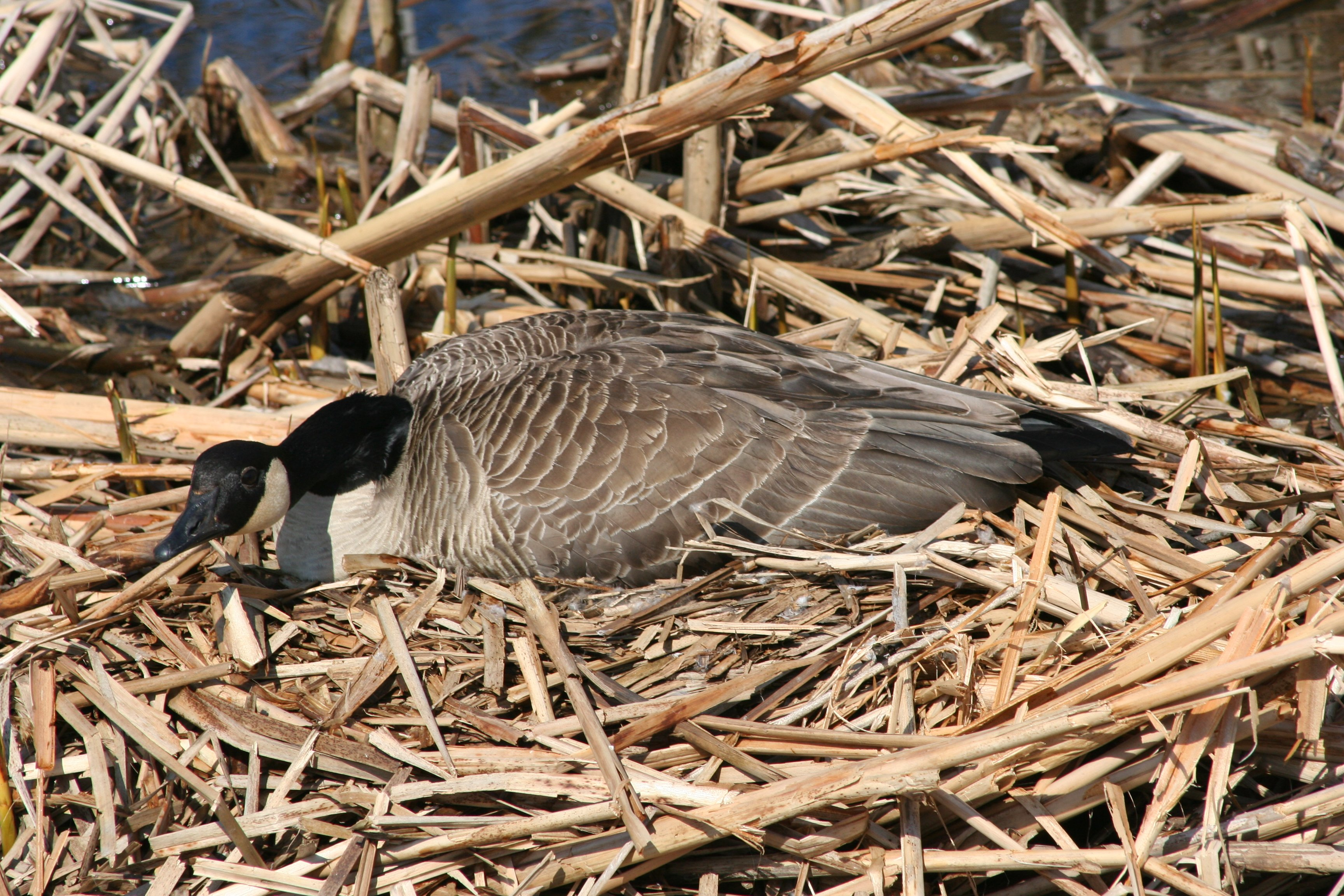 A nesting Canada Goose (Branta canadensis) at the Tifft Nature Preserve, Buffalo, NY.